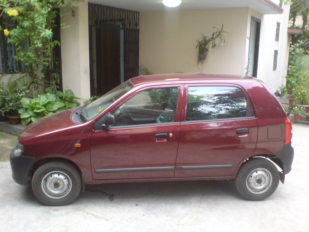 Maruti Suzuki Alto